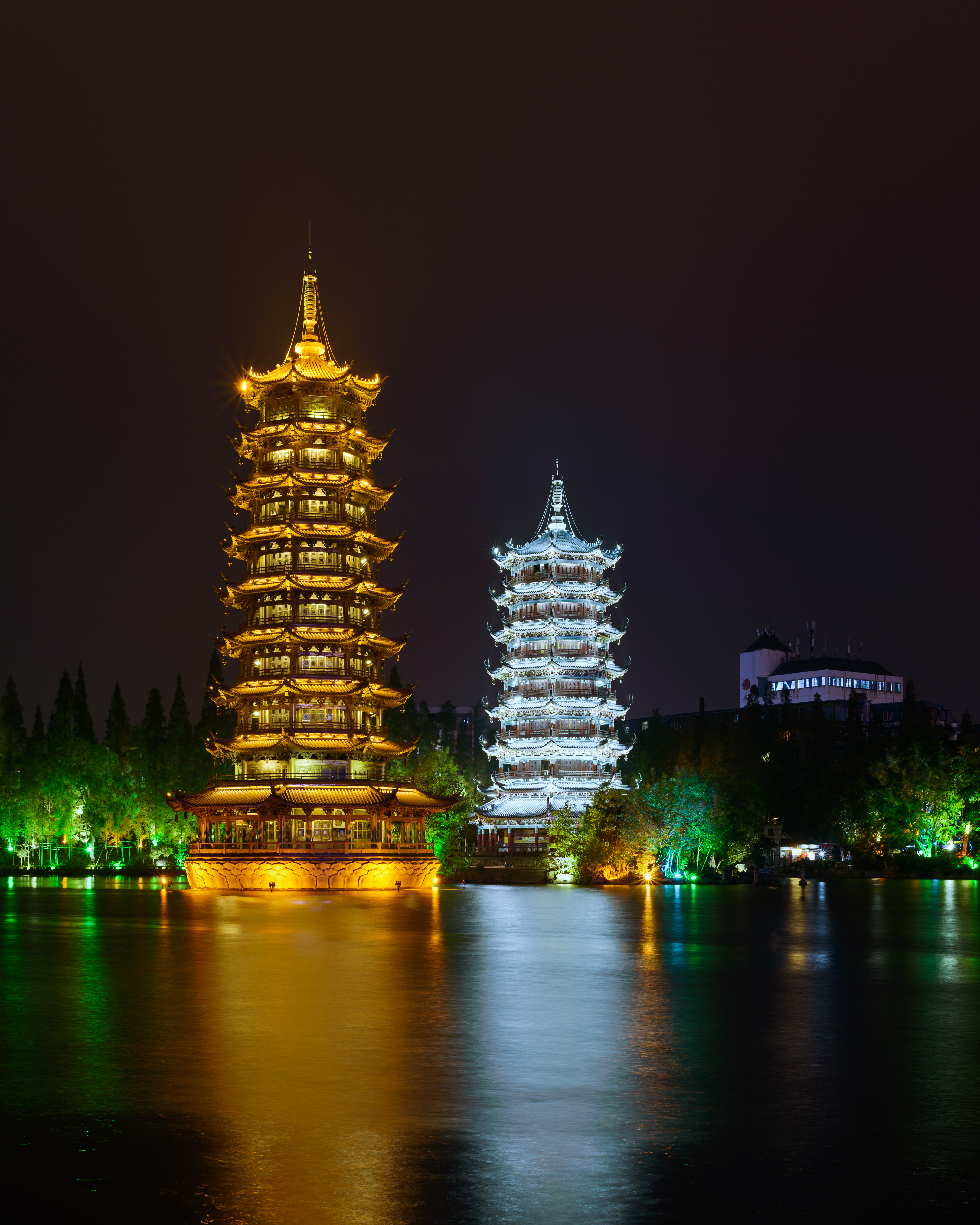 Sun and Moon Pagodas, Shanhu Lake, Guilin. HDR panorama composed of two frames by two exposures of 2 and 8 sec at f/11.